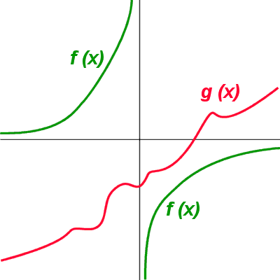 Continuous function (g(x)) and discontinuous(?) function (f(x))